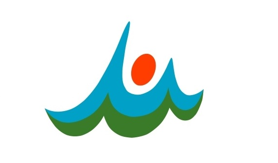 Flag of Unzen Nagasaki